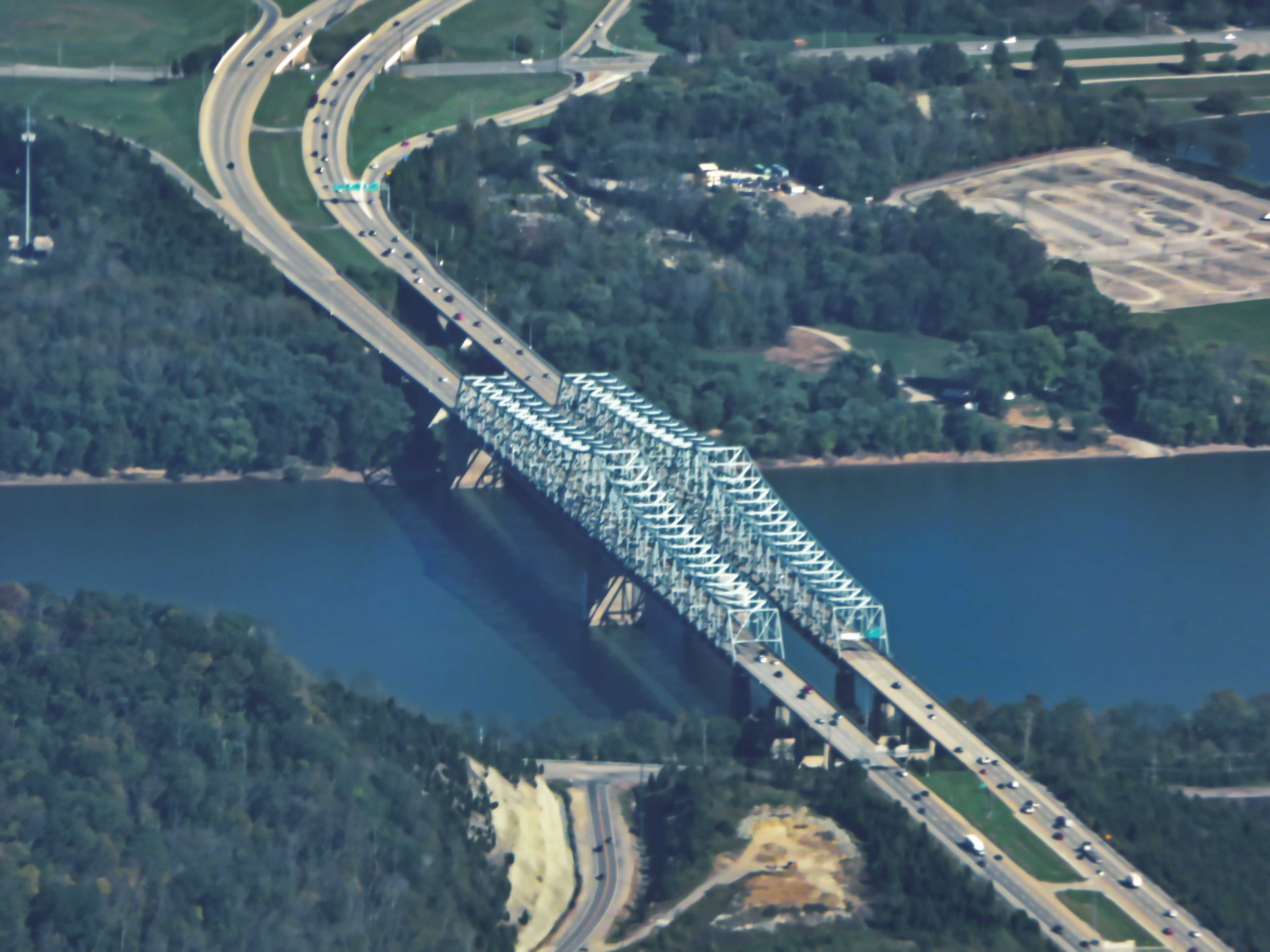 Aerial view of the Combs–Hehl Bridge over the Ohio River in 2017